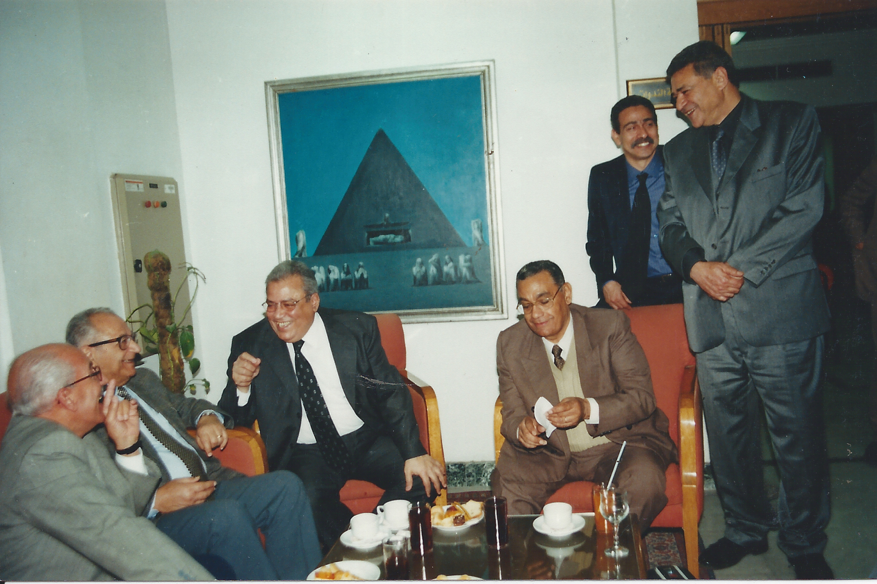 Dr. Awni Abdul Rauf And sitting next to Dr. Gaber Asfour